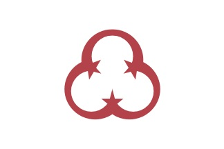 Flag of Oiso Kanagawa